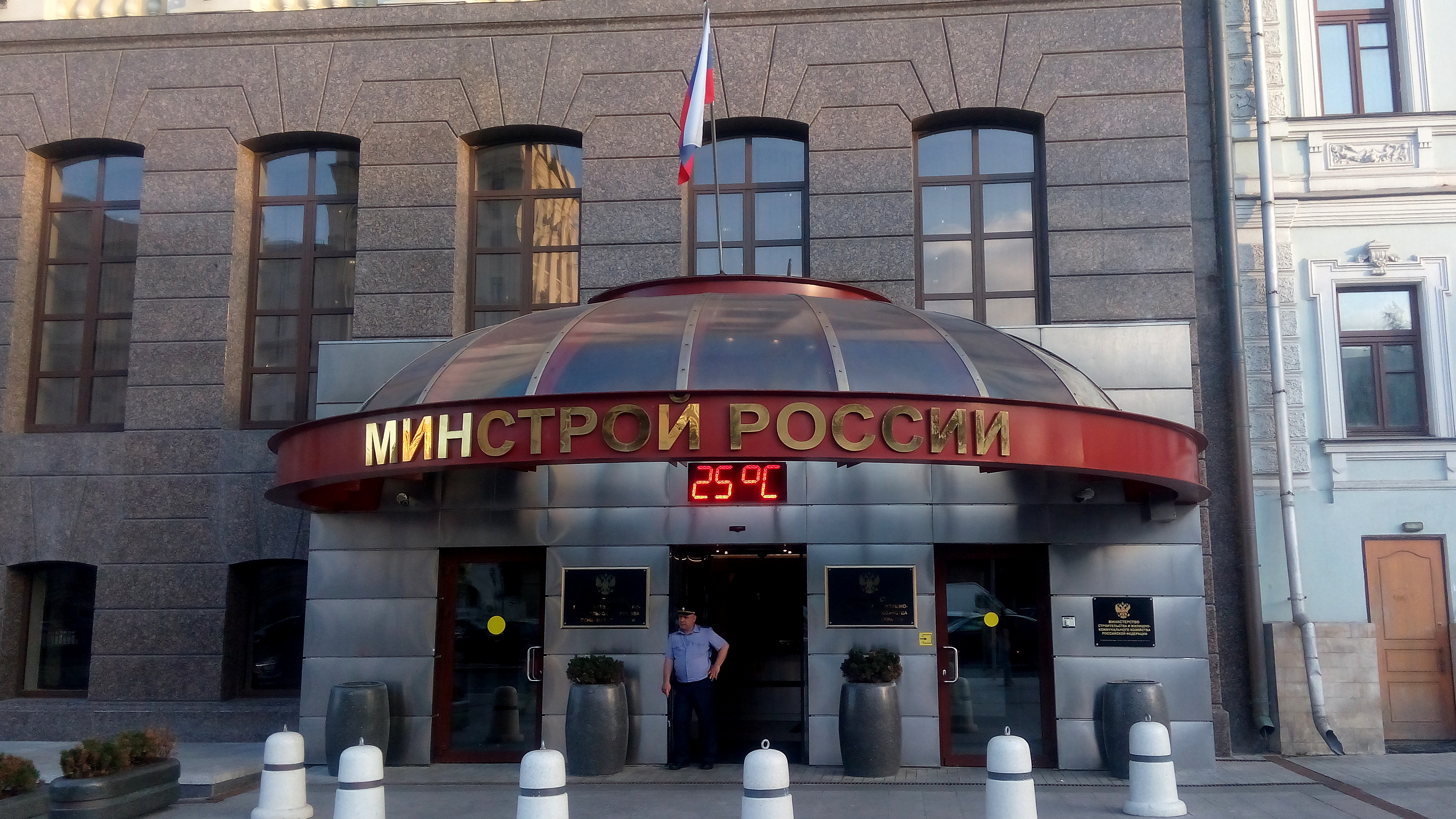 Central entrance to the headquarters of the Ministry of construction and housing. Moscow, Sadovaya-Samotechnaya str., 10/23, building 1